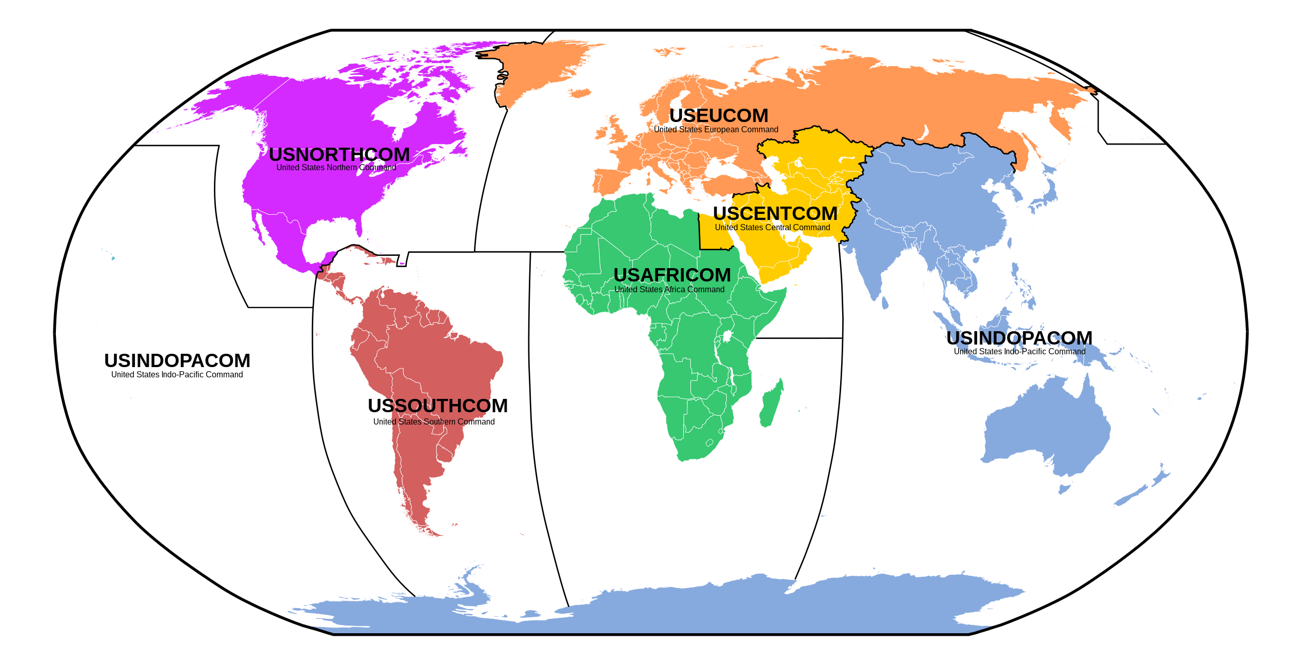 Unified Combatant Commands from 2008